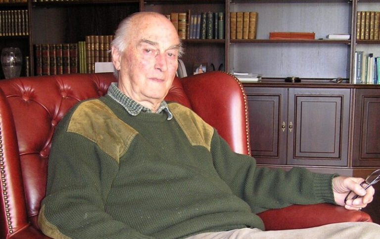 John Marmaduke Parish, nobility, Žamberk